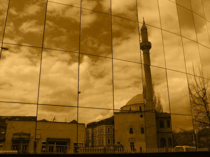 Old mosque reflection in Prishtina, Kosovo